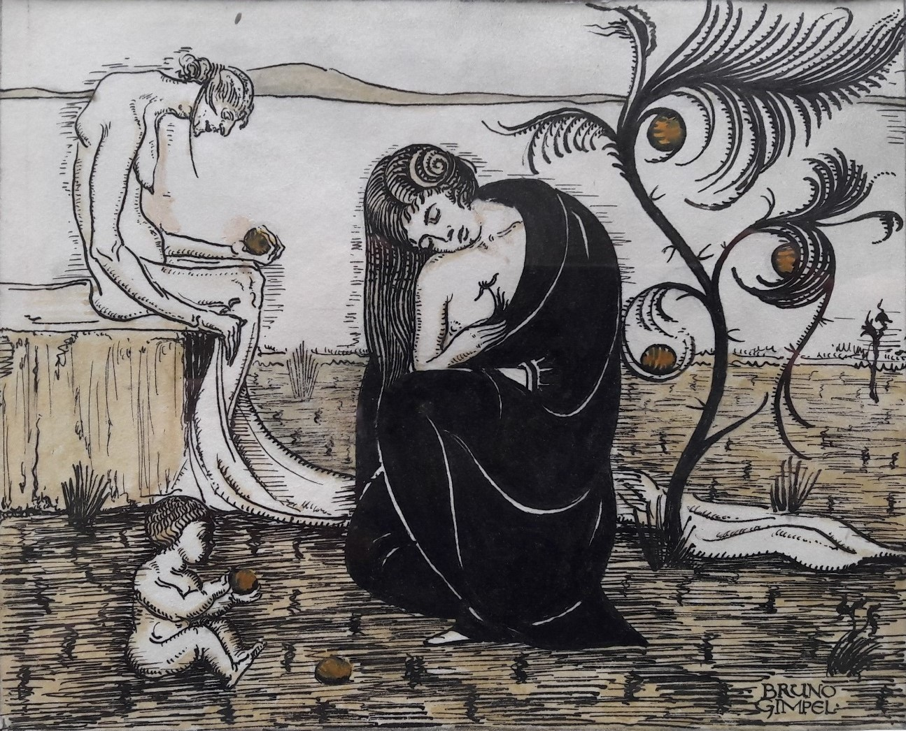 Eve